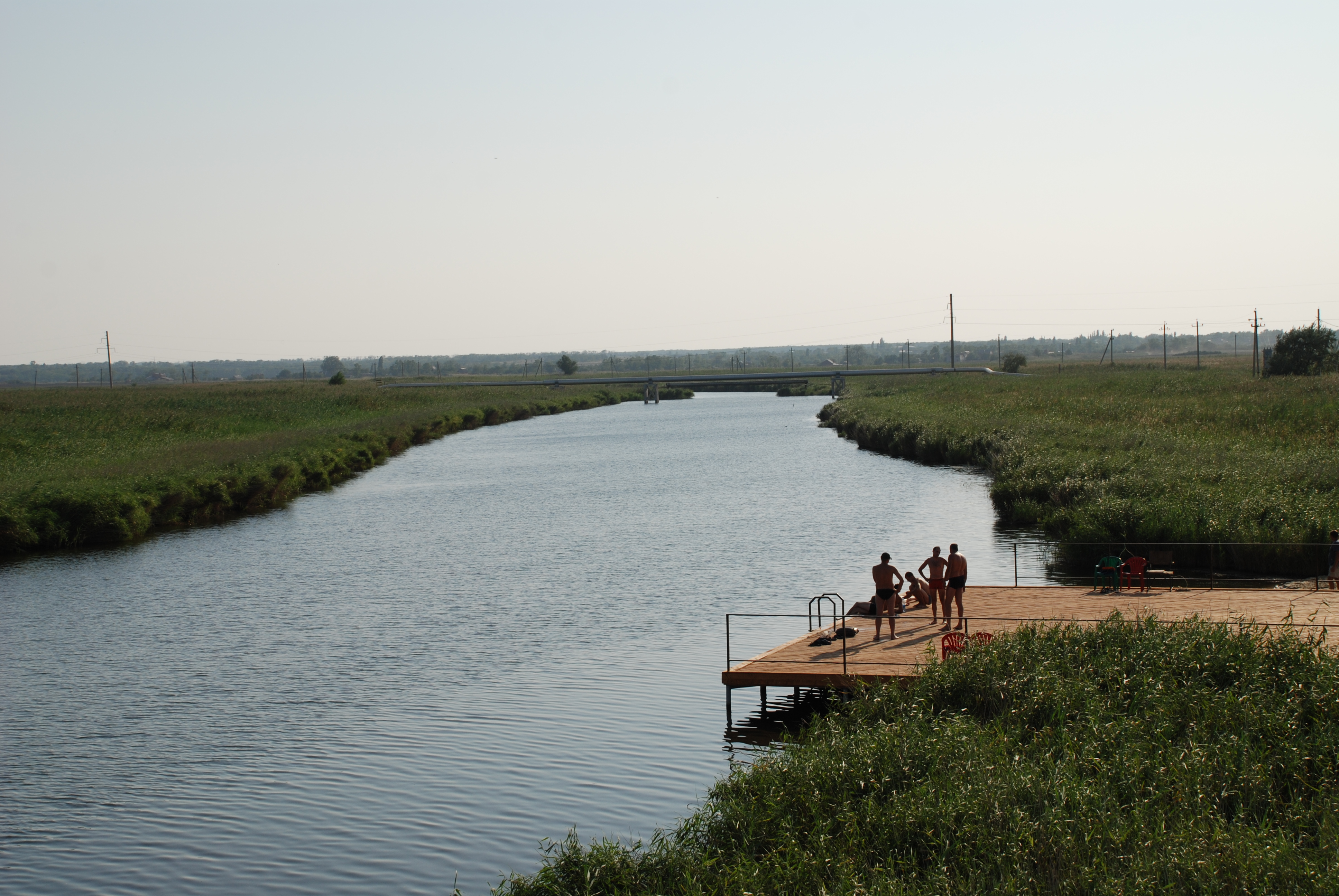 Kagalnik River from bridge near village Samarskoe.